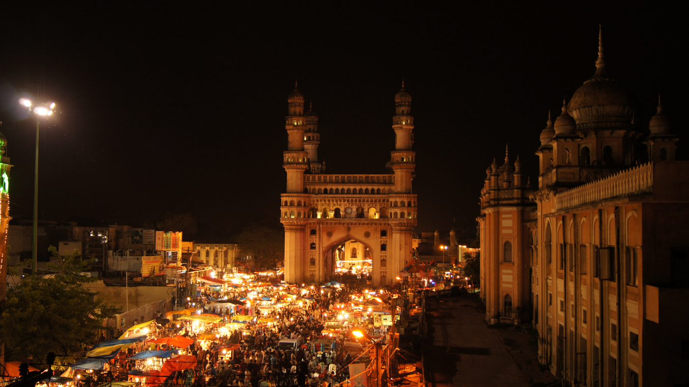 Charminar